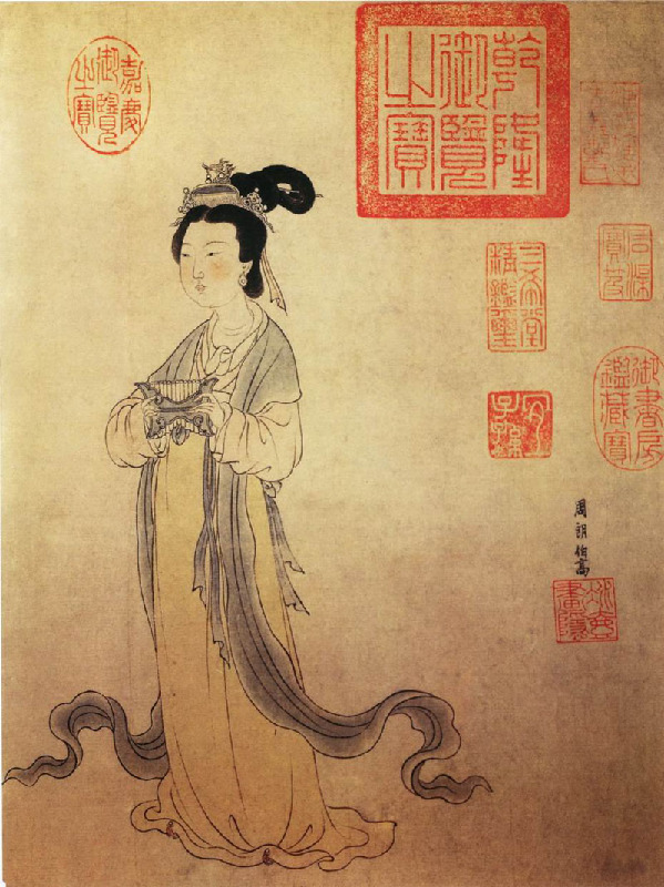 Portrait of Du Qiuniang (杜秋娘) by Yuan dynasty painter Zhou Lang (周朗) from the silk scroll 周朗杜秋图卷 in Palace Museum, Beijing